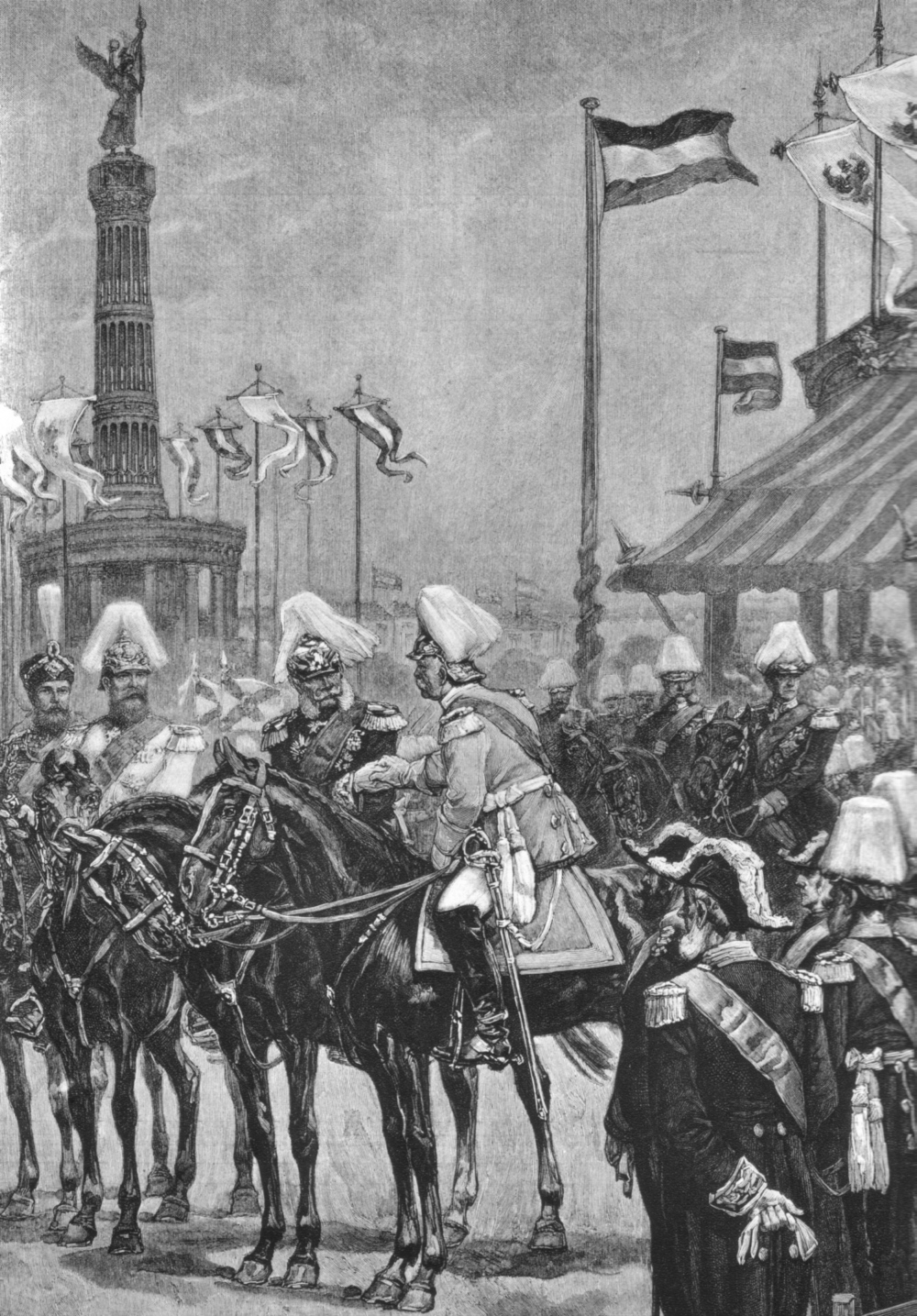 Inauguration of the Victory Column (Siegessäule) in Berlin